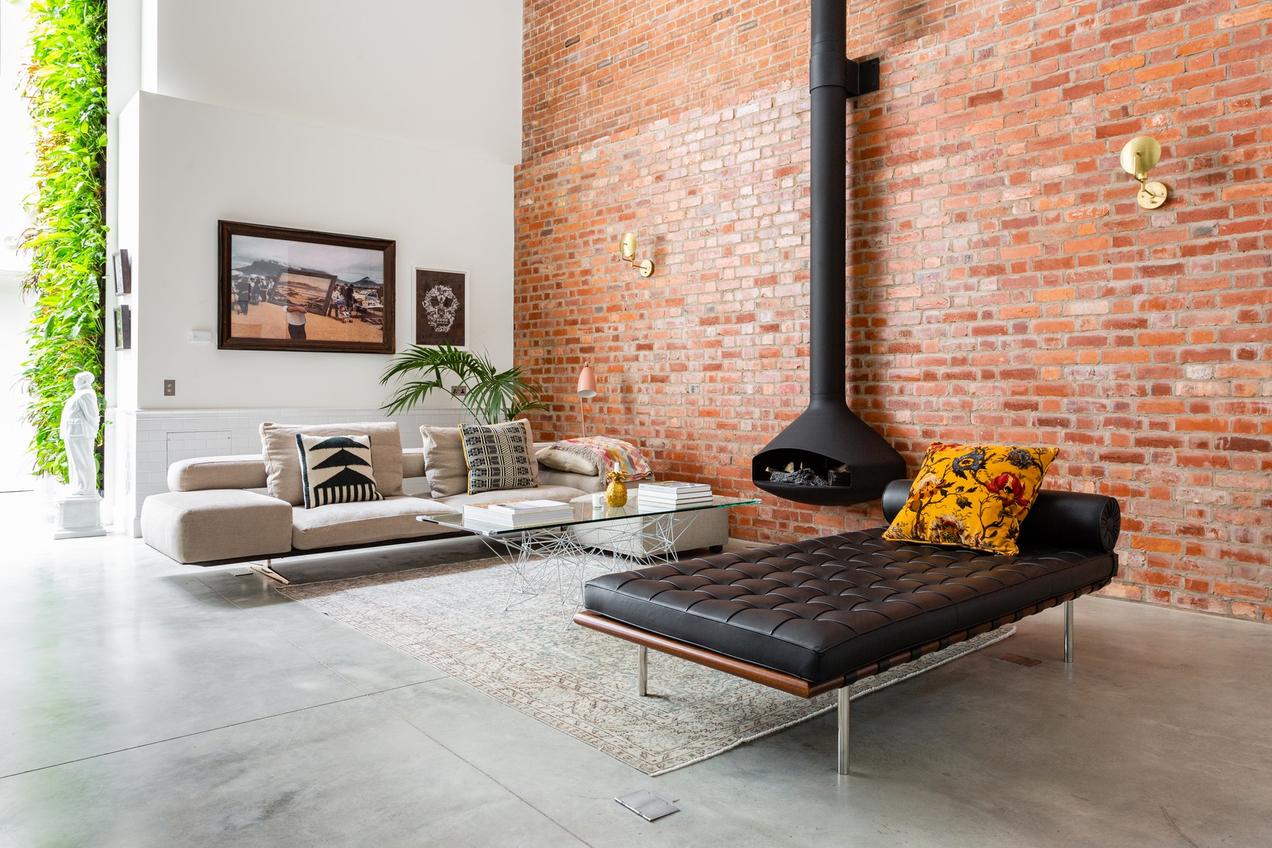 This image shows typical standard of homes in the onefinestay City Collection.